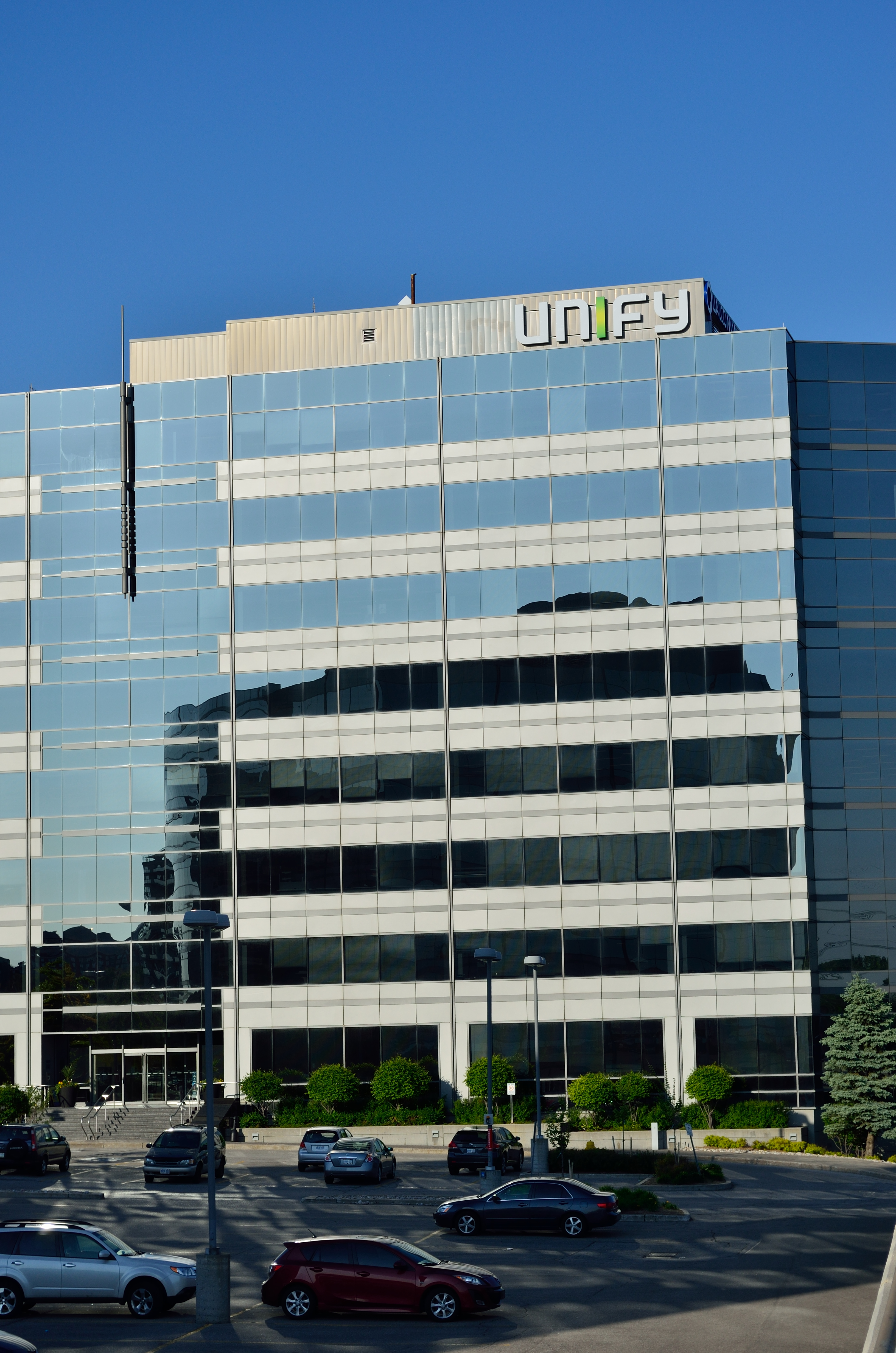 Unify Office in Markham - Address: 55 Commerce Valley Drive West, Markham, ON